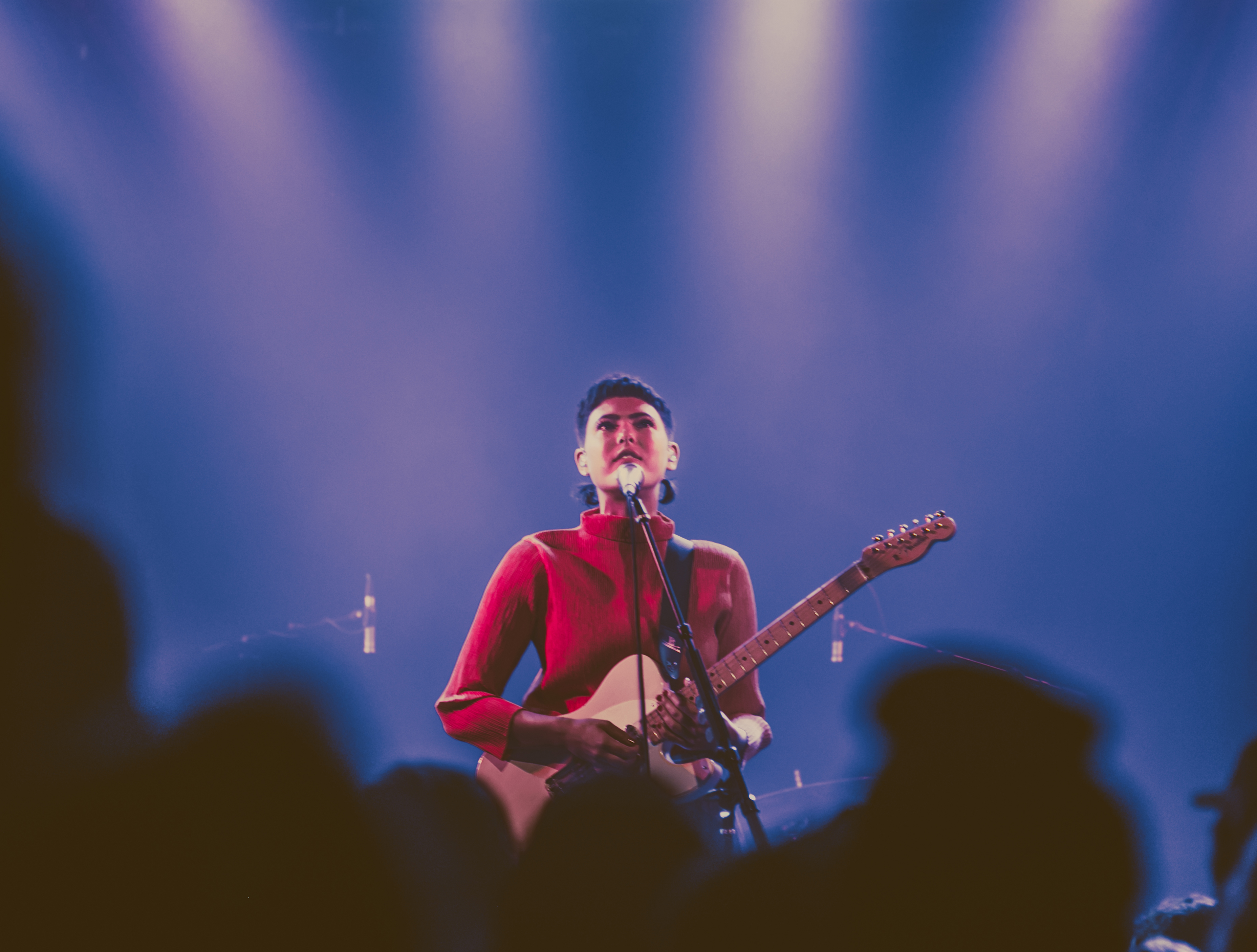 Miya Folick